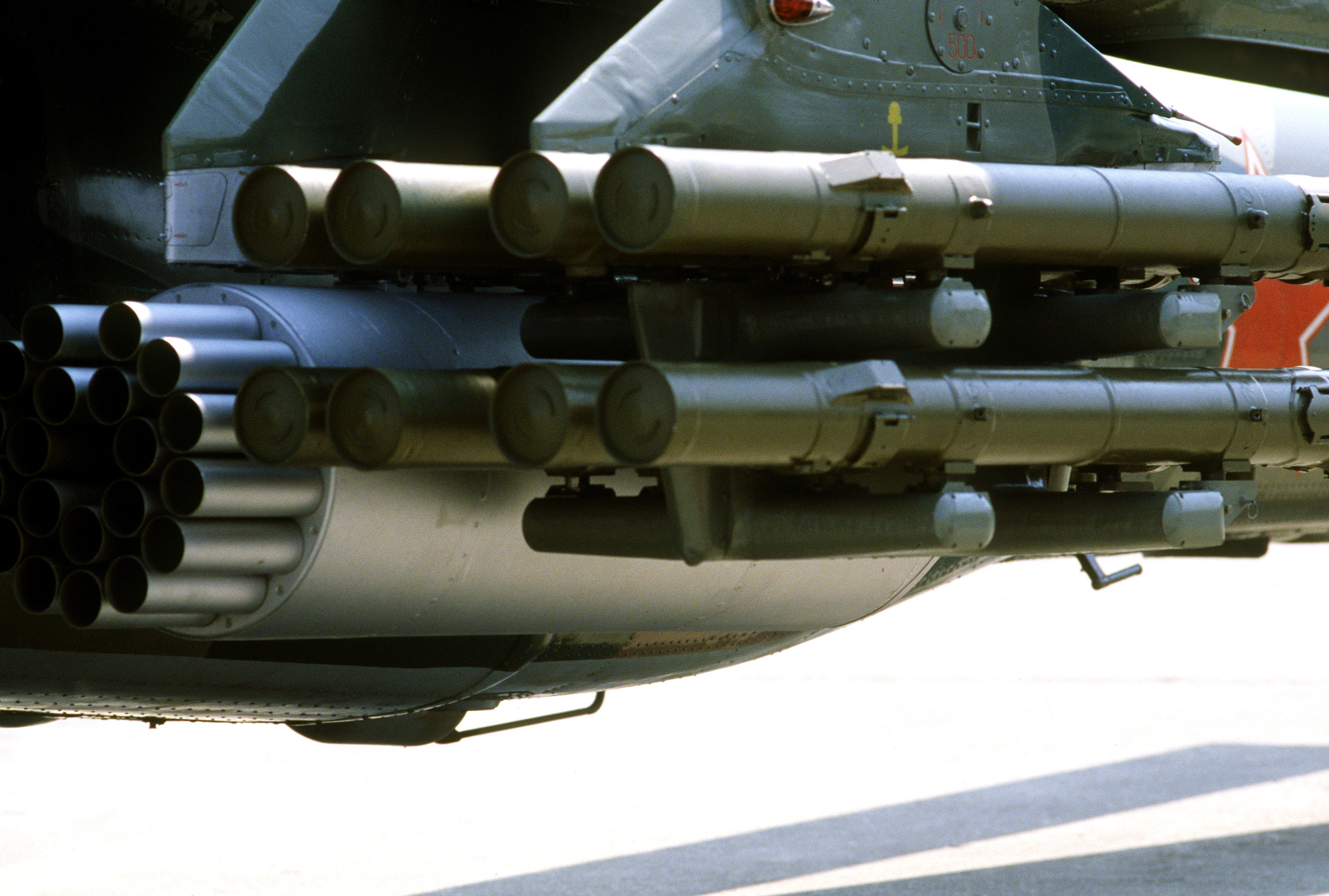 A close-up view of rocket launchers on a Soviet Mi-28 Havoc helicopter on display at the 38th Paris International Air and Space Show at Le Bourget Airfield.